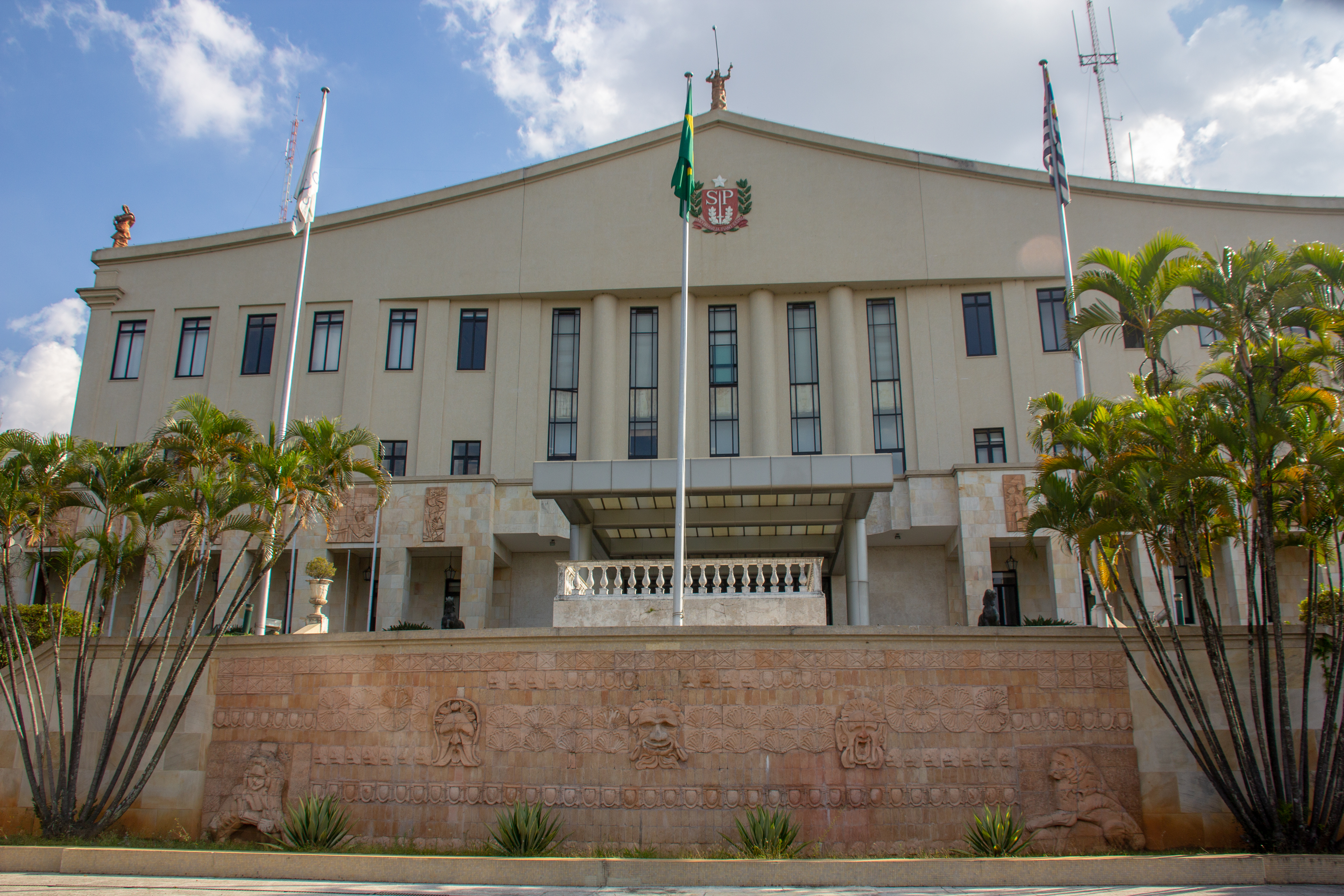 Palácio dos Bandeirantes, São Paulo, Brazil